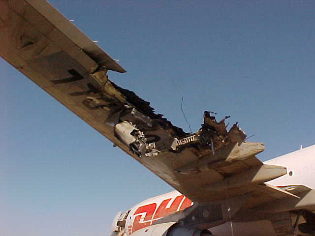 Closeup - Left Wing of Craft